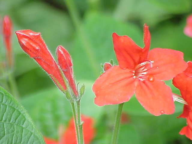 Species: Ruellia elegans Family: Acanthaceae Image No. 1